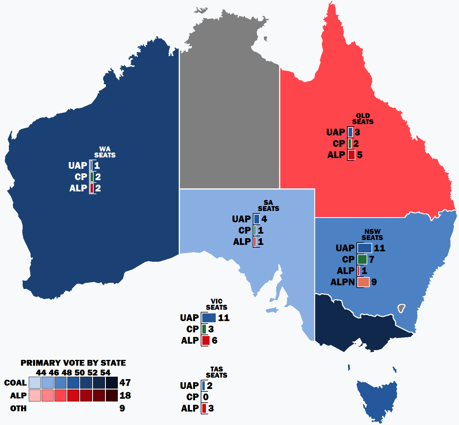 Result of the primary vote by state in the 1934 Australian federal election.